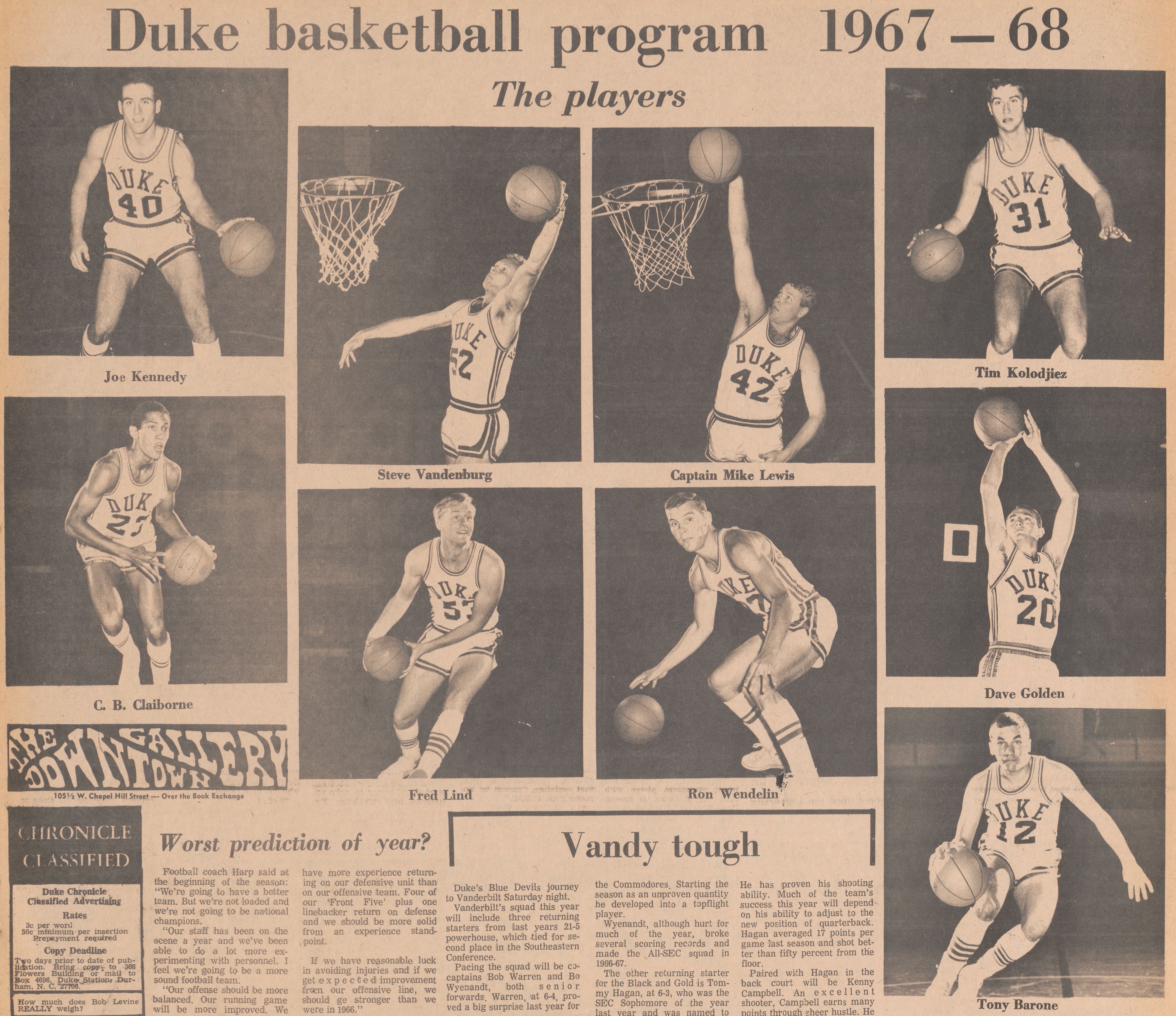 Scanned from the December 13, 1967 issue of the Duke Chronicle, the student newspaper of Duke University